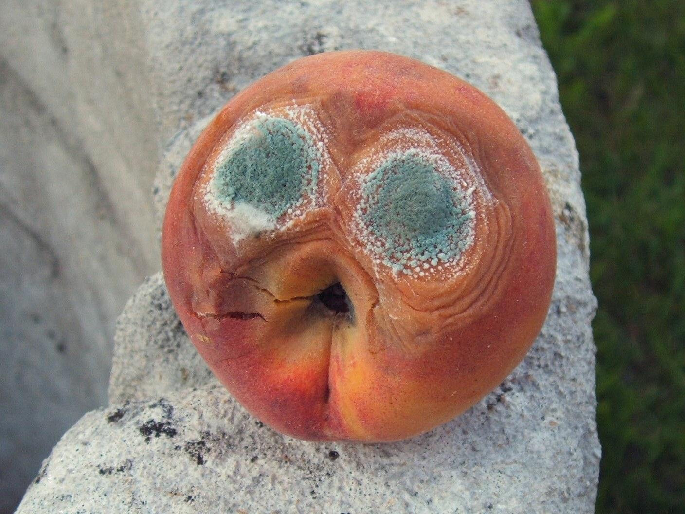 Nature looks back at us. A peach (Prunus persica) with mould staining.